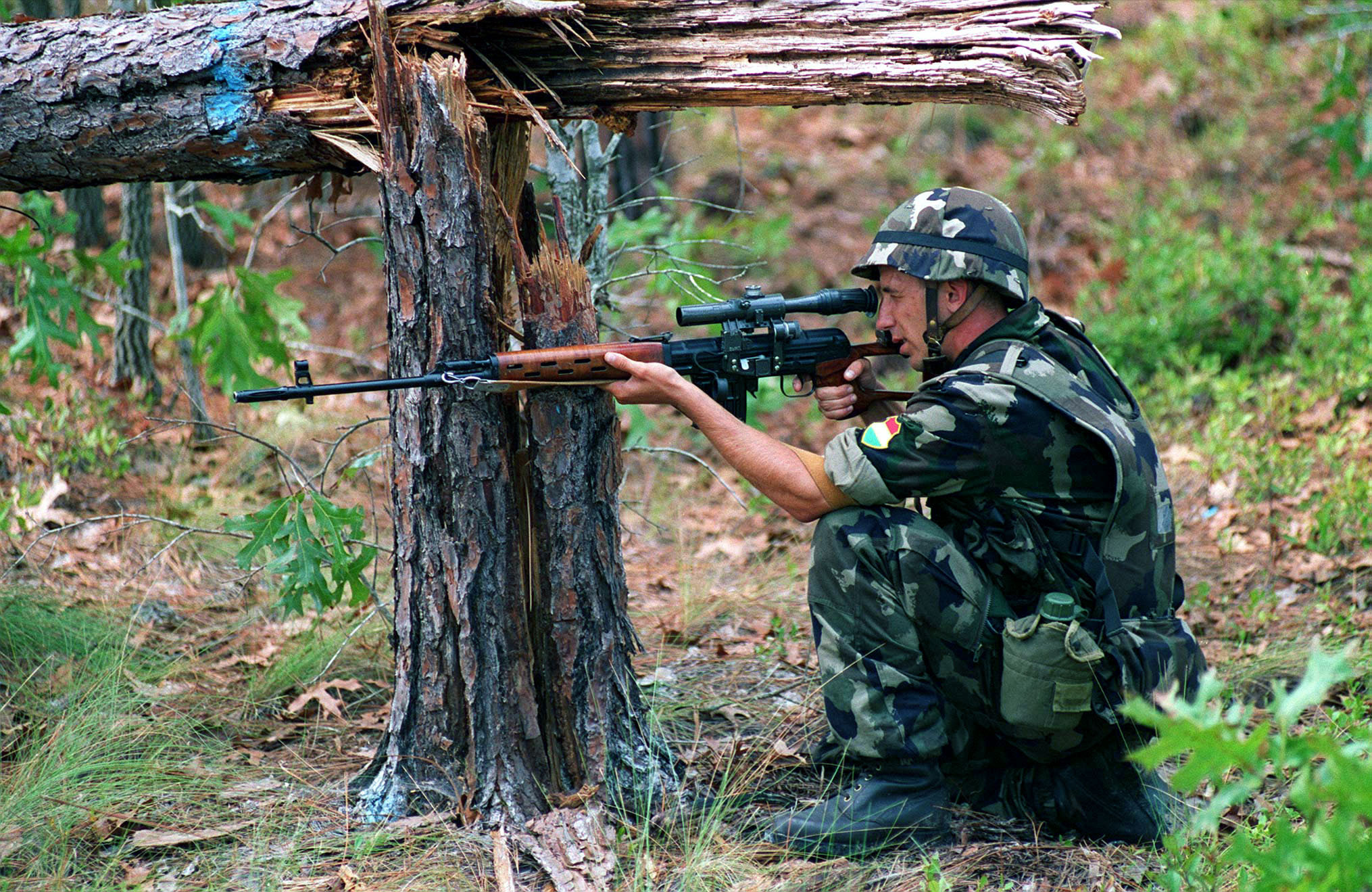 A Hungarian Soldier aims through the PSO-1 telescope mounted atop his 7.62mm Dragoon sniper rifle, while kneeling beside a fallen tree, during convoy operations training, part of Situational Training Exercise-1 (STX-1), during Operation COOPERATIVE OSPREY 96 held at Camp Lejeune, NC.